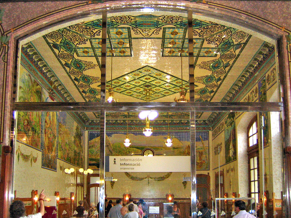 Information desk, Valencia train station